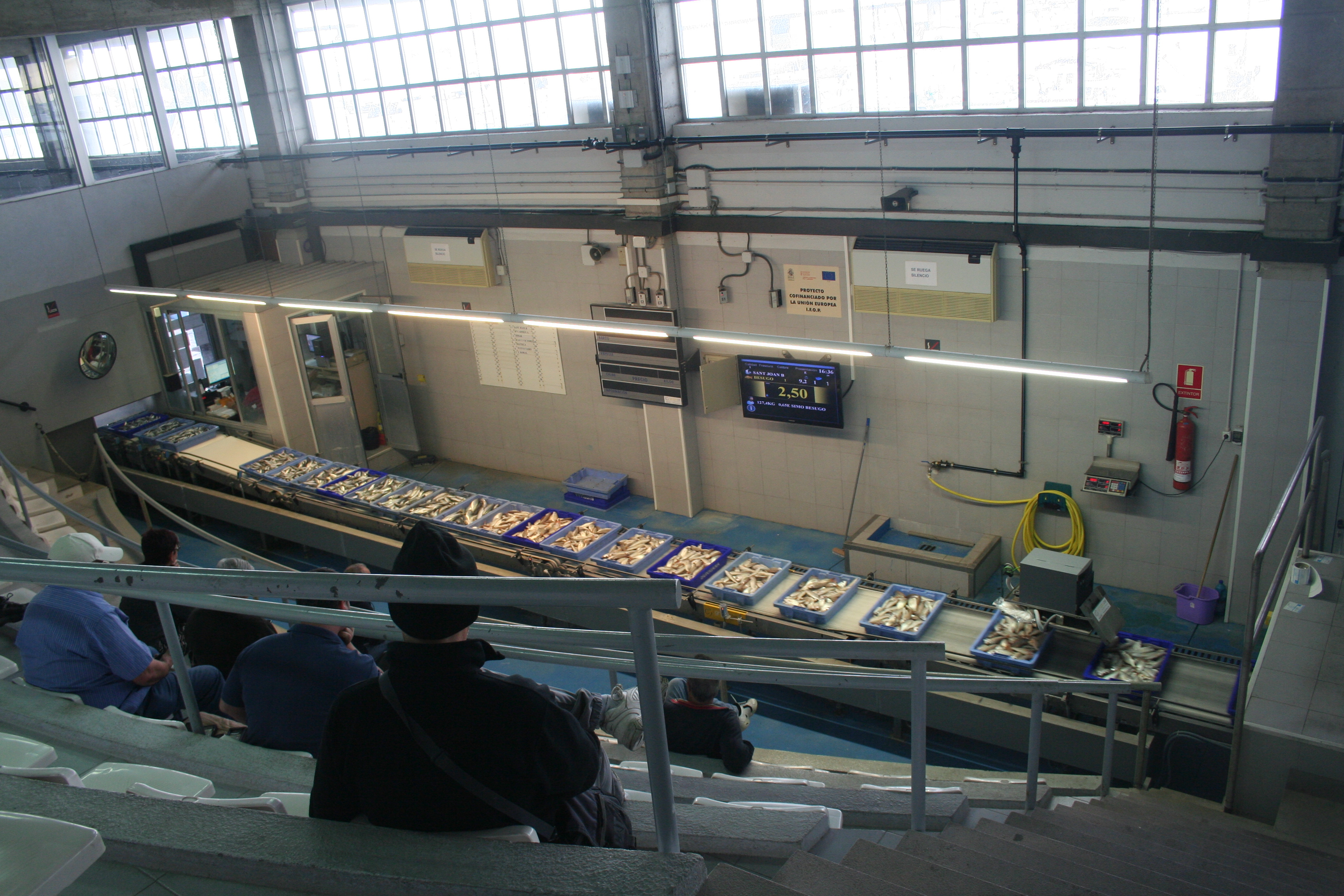 Fish market of Burriana